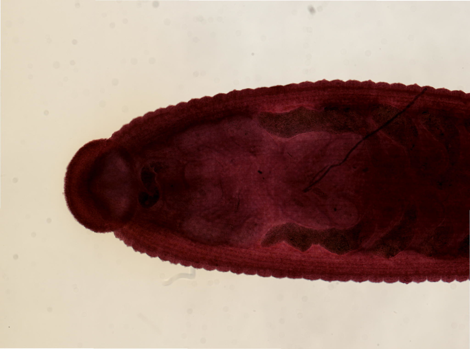 PRESERVED_SPECIMEN; ; ; microslide; IZ number 98126; lot count 1; Microslide 01, balsam, whole mount